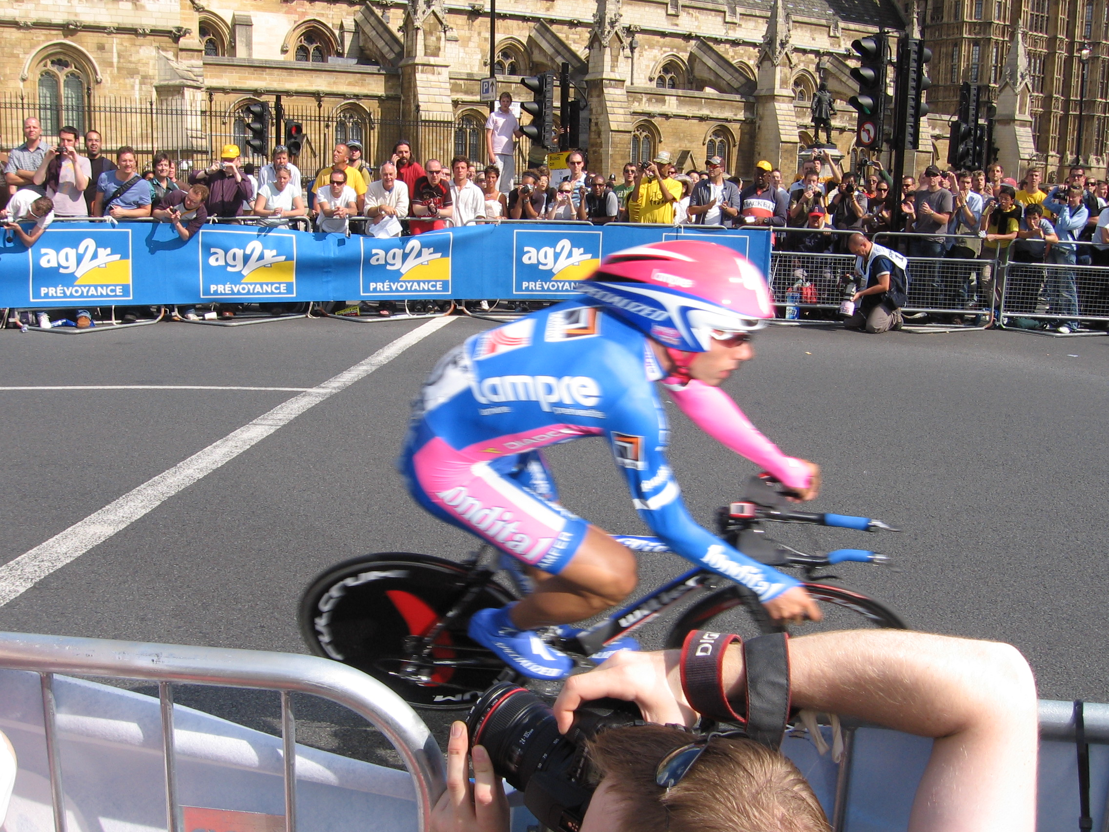 Claudio Corioni during the prologue of the Tour de France 2007Claudio Corioni